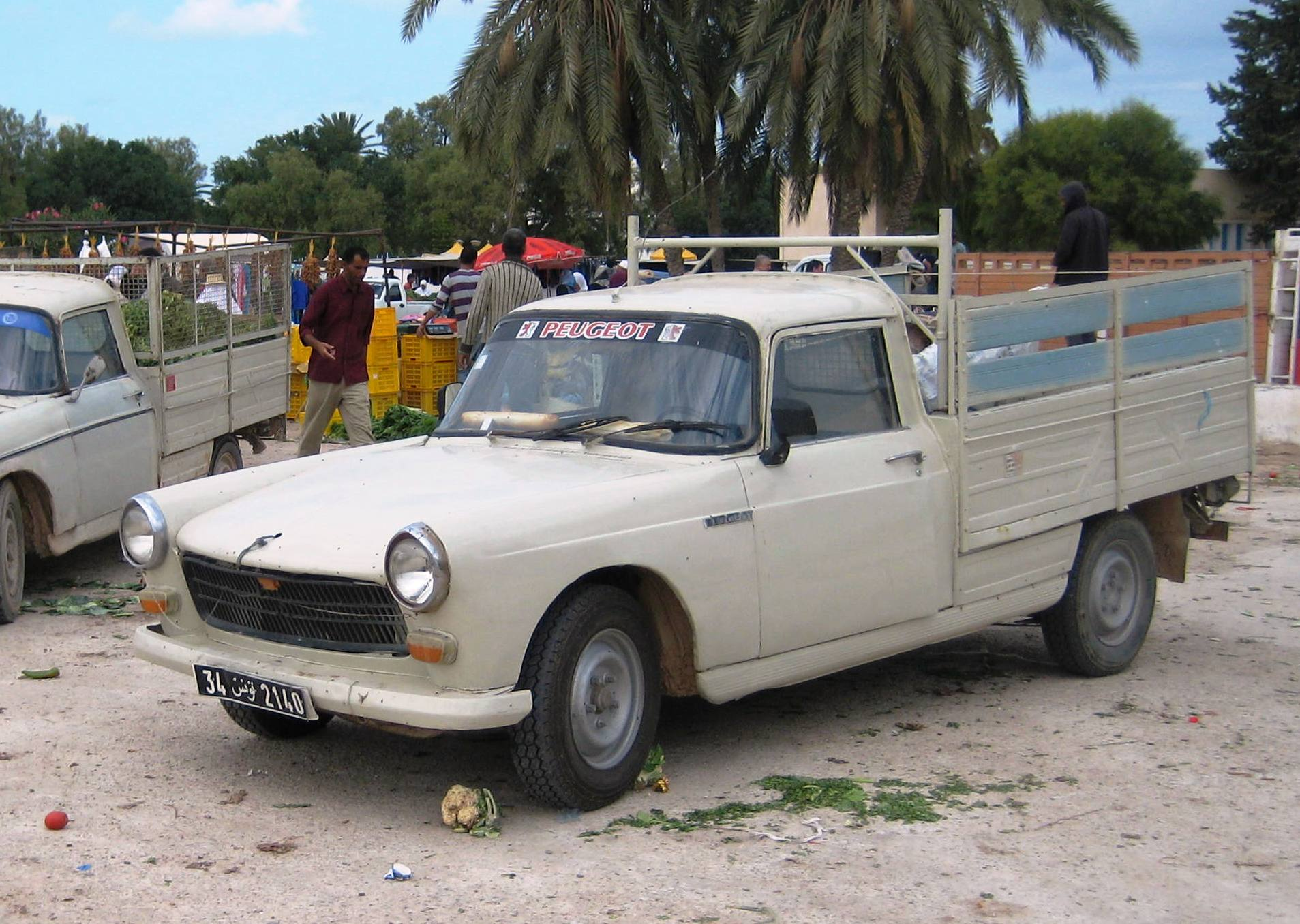 Peugeot 404 camionnette cropped from existing wiki picture uploaded by wiki contributor OnkelFordTaunus I have here cropped brutally a picture already uploaded by OnkelFordTaunus. I have done this because where the picture is small - ie as a "thumb" image, I think it works better in describing the way the truck looks if only one truck (and a bit) is shown.